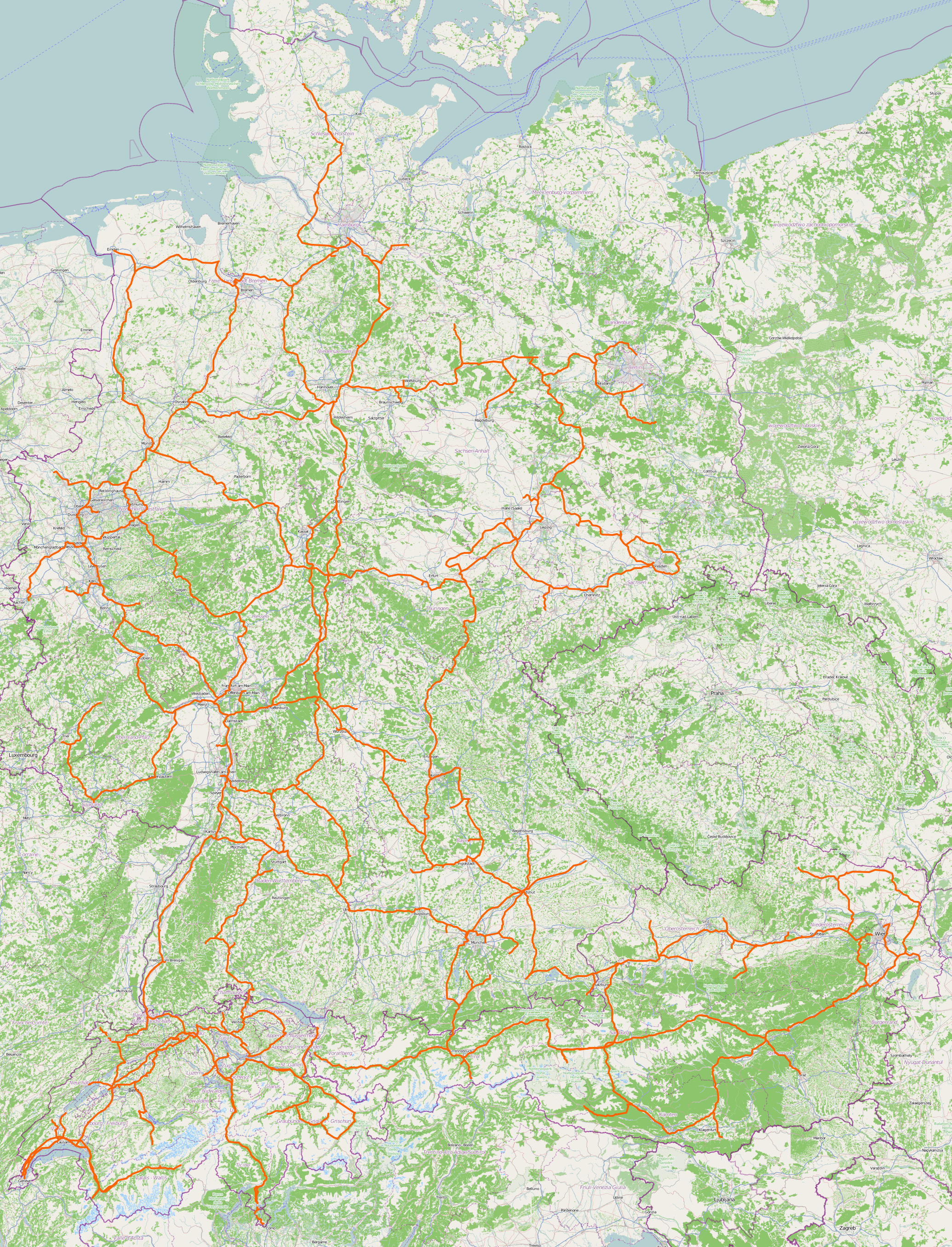 High-voltage power grid of the railway companies in Germany, Austria and Switzerland made with Openstreetmap-Data. Not all underground cables of the high voltage power grid of the railway companies in Germany, Austria and Switzerland are shown. Please correct, if required!